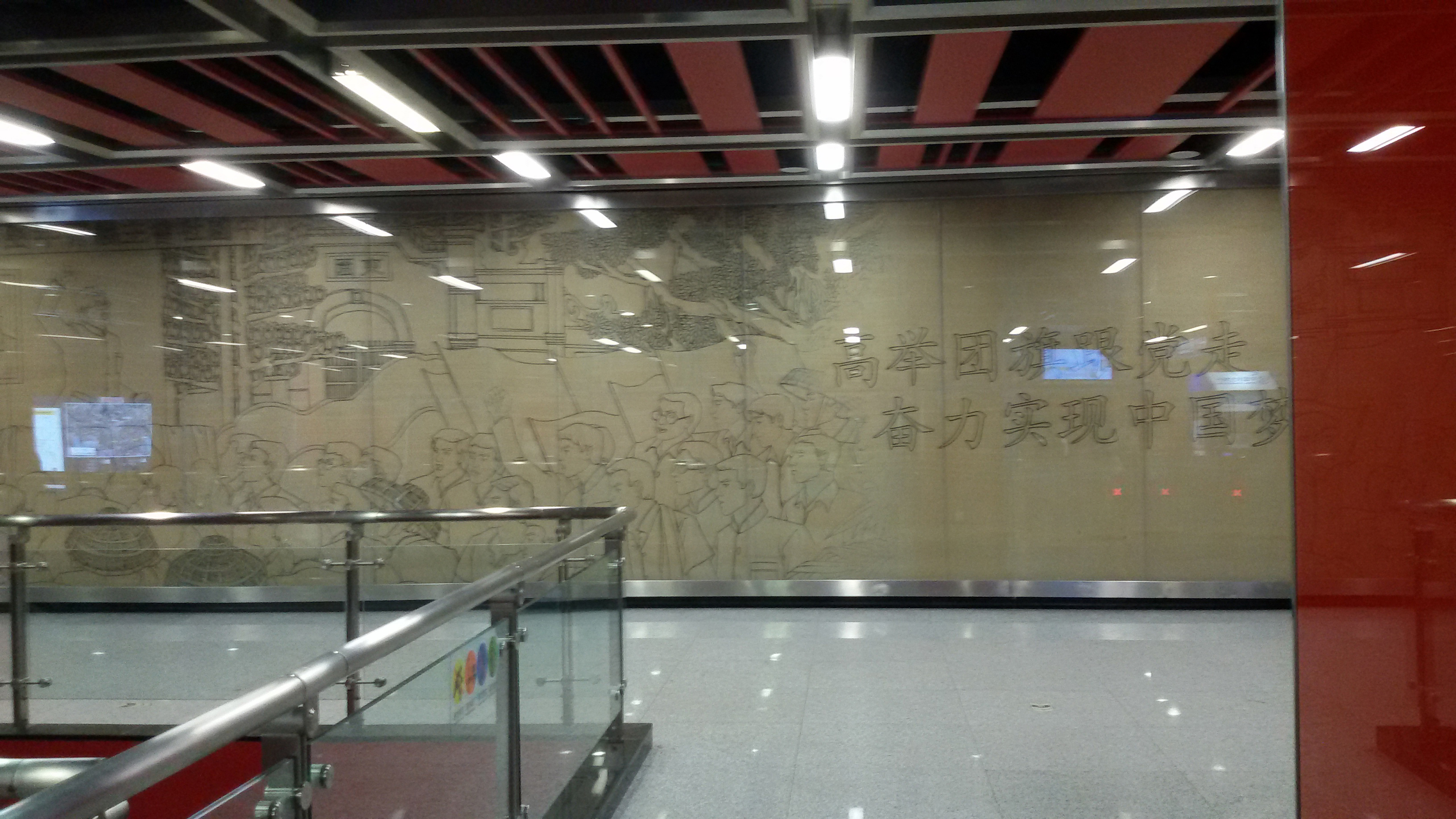 Cultural Wall in Tuanyida Square Station